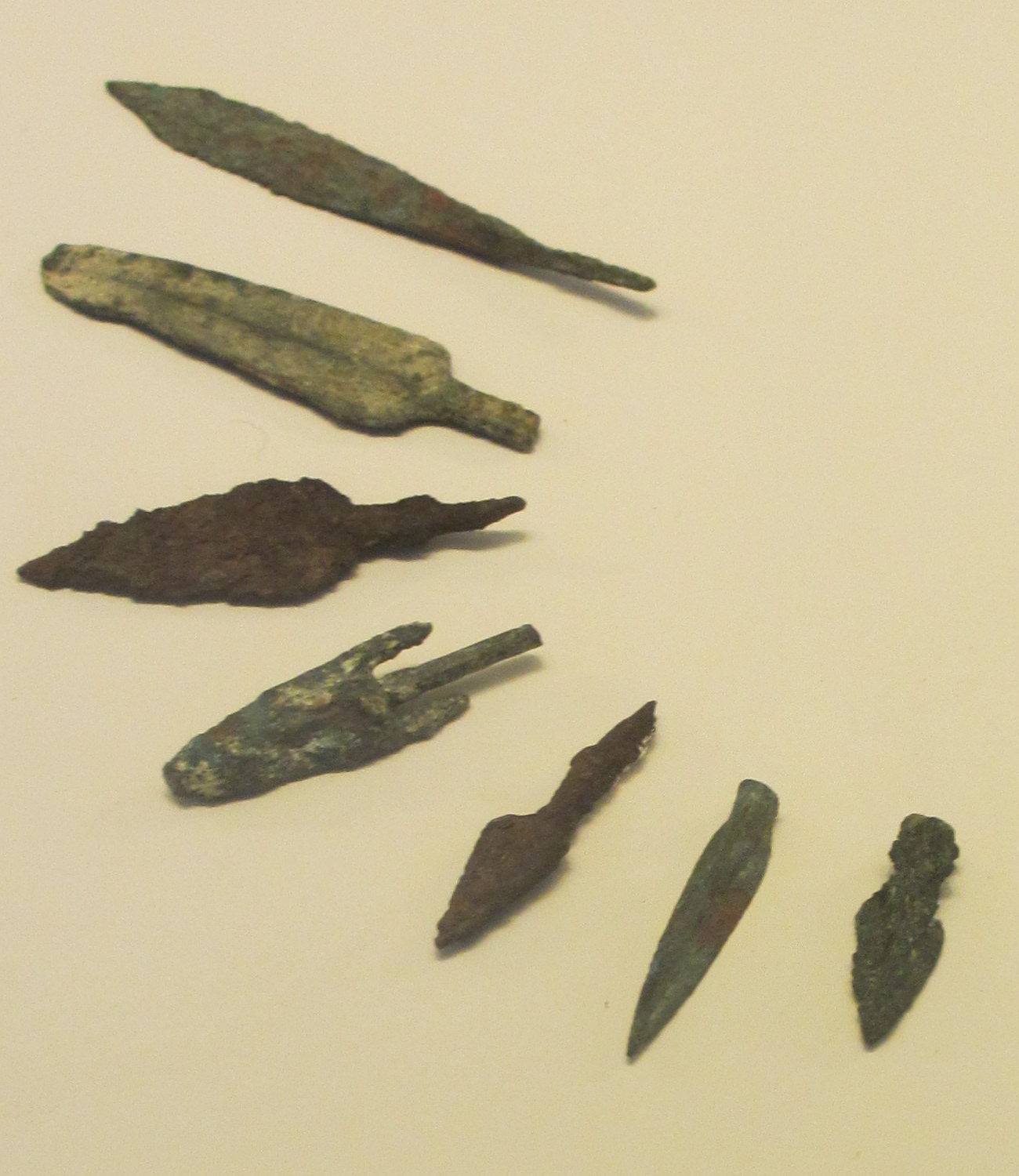 Arrowheads. Bronze and iron. Jerusalem (early 6th BCE). Israel Museum, Jerusalem